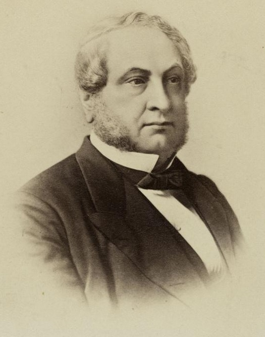 French politician Eugène Rouher (1814-1884).